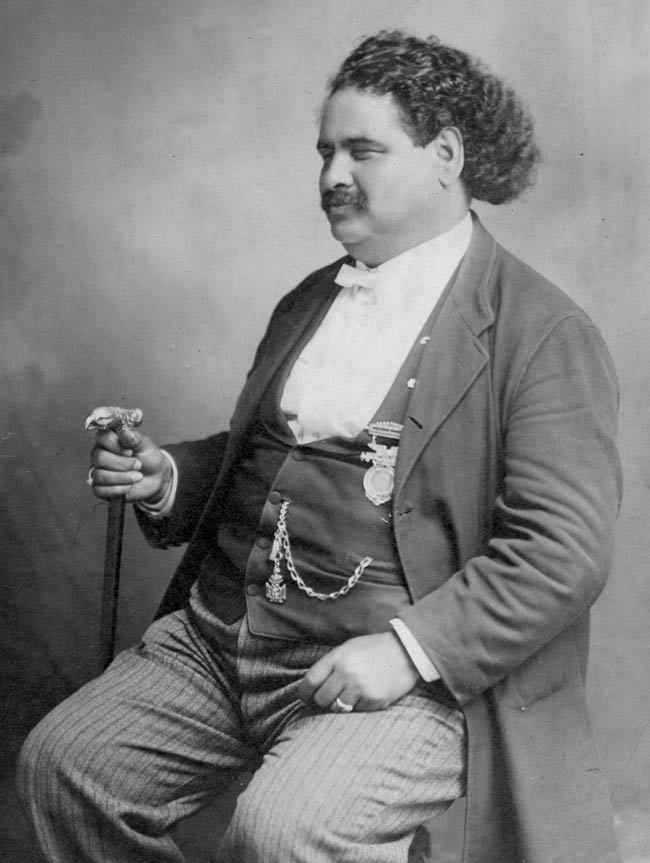 Blind Boone, aged 44